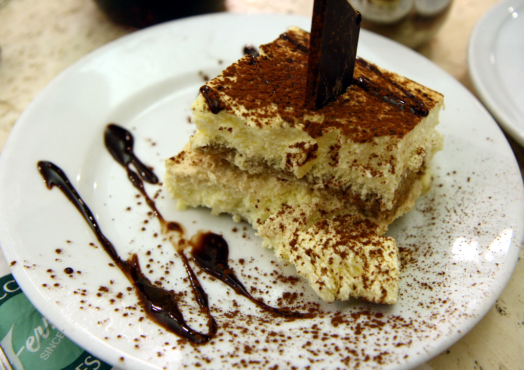 Tirami su prepared at Ferrara, 195 Grand Street, Little Italy, New York